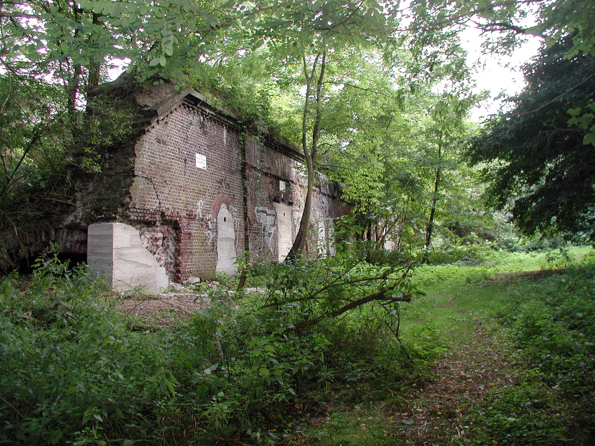 Cologne, destroyed former Prussian fortress